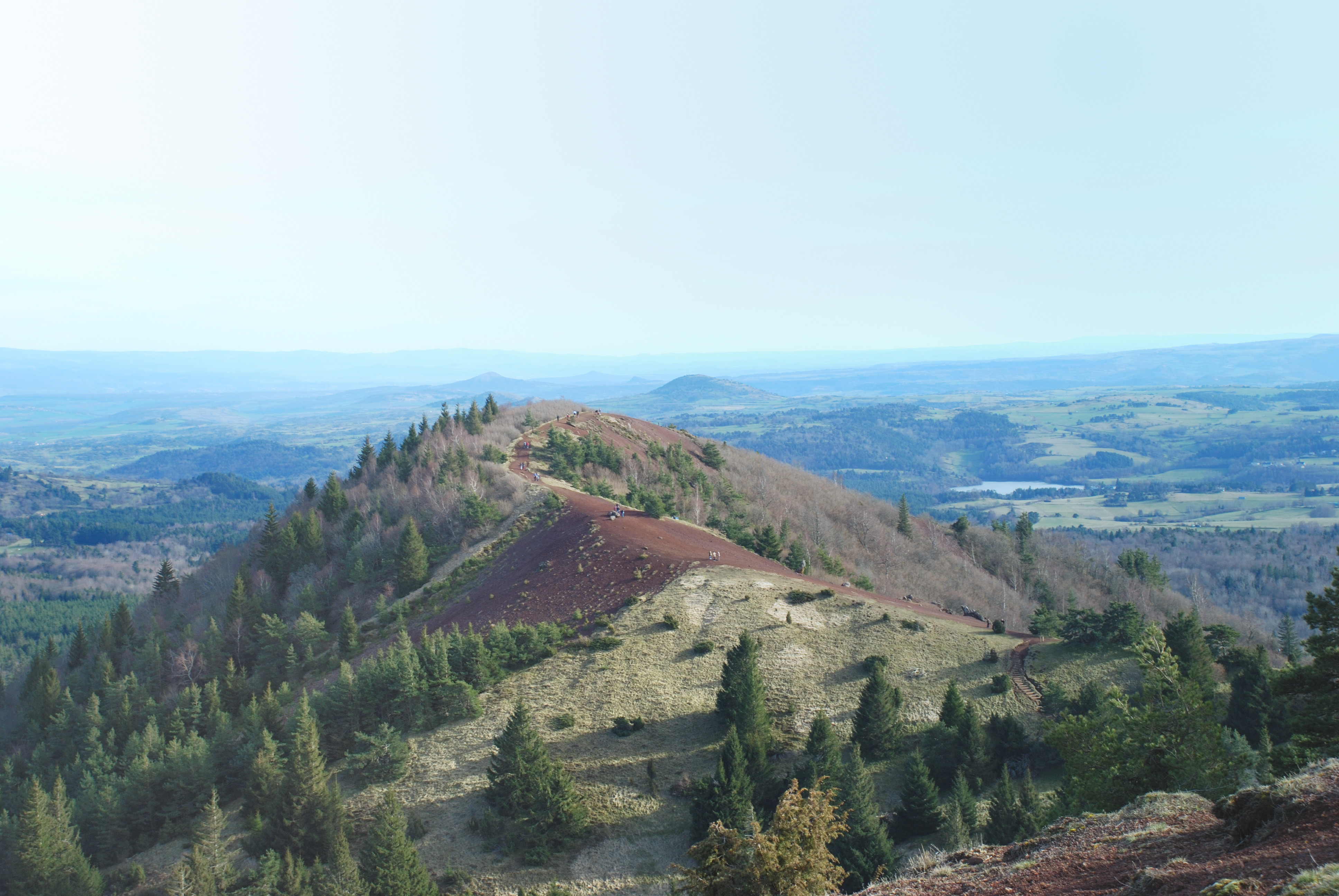 Chaîne des Puys : Puy de la vache (1167 m), picture taken from the Puy de Lassolas (Puy-de-Dôme, France).